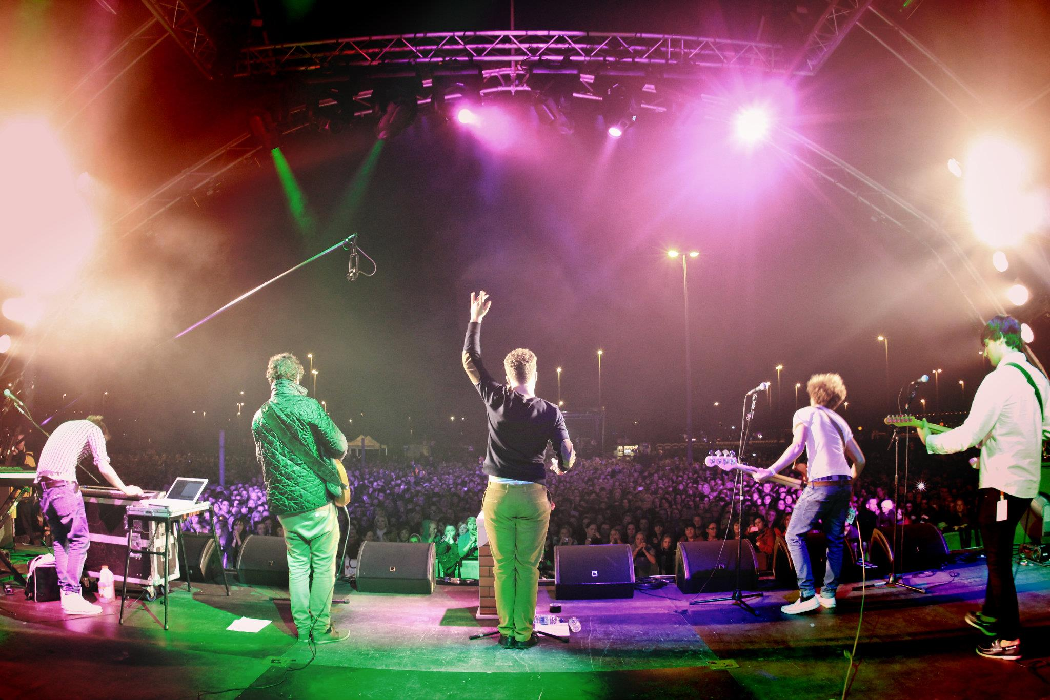 Young Kato Live Shot